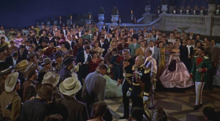 Scene from Vera Cruz - trailer (cropped screenshot)